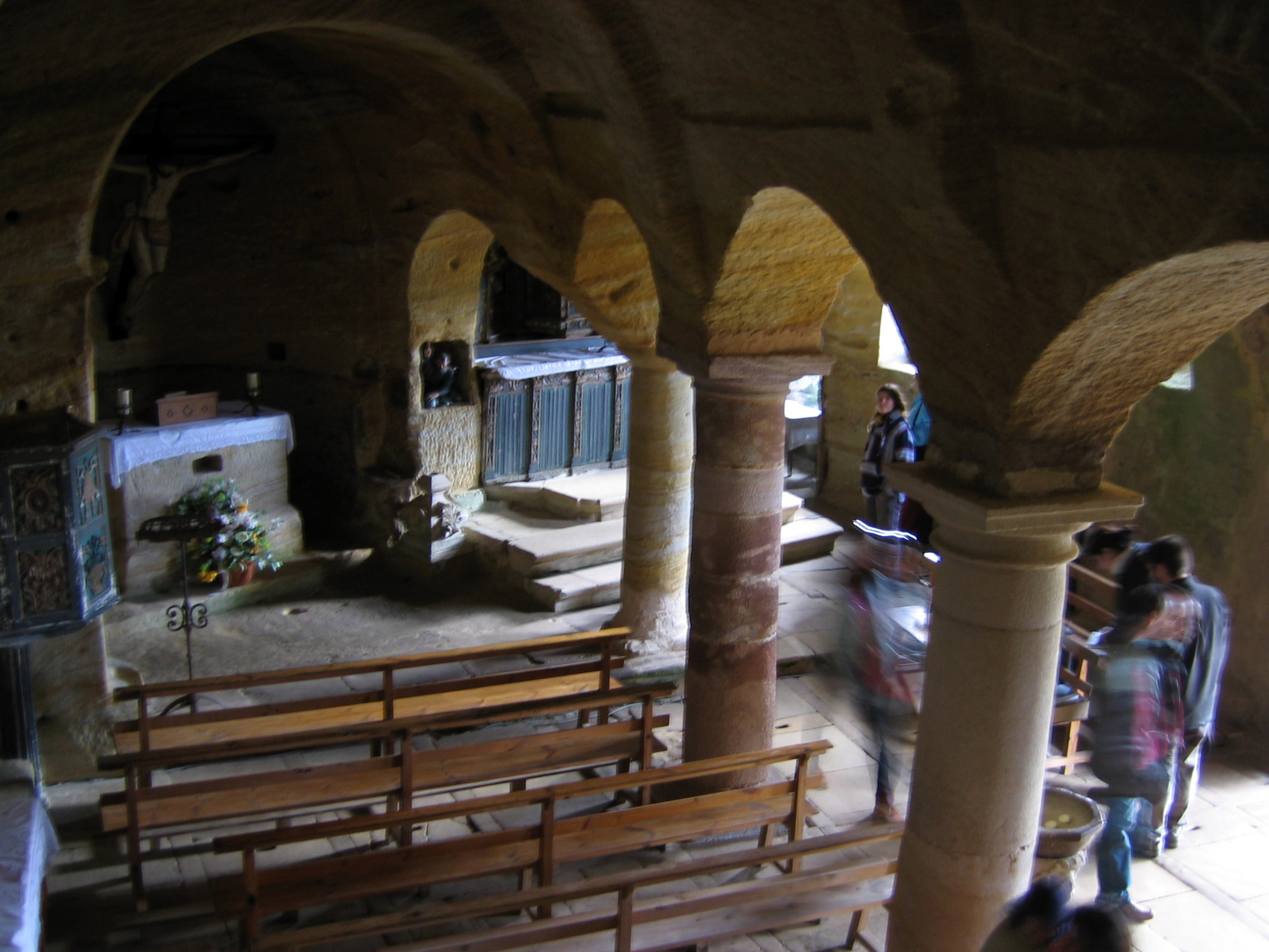 Interior view of the cave chapel of Olleros de Pisuerga (Palencia, Spain). This church is the best example of Spanish eremitic movement. Launched its "work" to the XI or X century by mozarabic people which fleeing from Islam arrived in this area, and dug a first place of prayer, in current sacristy, which had (blinded currently) access door and window in concentric circles functions. Then is increase the construction of the temple performing two craft and a third, already towards the end of the XII century header so it fits of full during the years of the Romanesque in North Palencia hatching. Orientation is abnormal, by imperative of sandstone rock that carved outcrop. The craft has North-South orientation and the door opens to the East. Headers, in turn, are diverted to West, from the axis of its ships. The two made craft simulate possess Vault suggested and not lack even the detail of the transverse arches with pointer; notable carving whose sole function is obviously decorative to accommodate the temple to the tastes of the time in was expanded. The four pilasters which tile craft in four sections more the presbytery, only that underpins the choir at the foot of the temple is original. The other three, Tuscan, are 17th and should replace impairment the rock in those places.